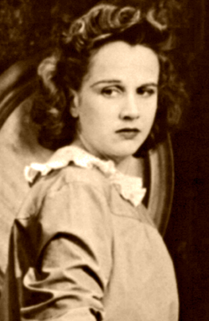 Kim Hunter in a scene from Tennessee Williams' play A Streetcar, Named Desire